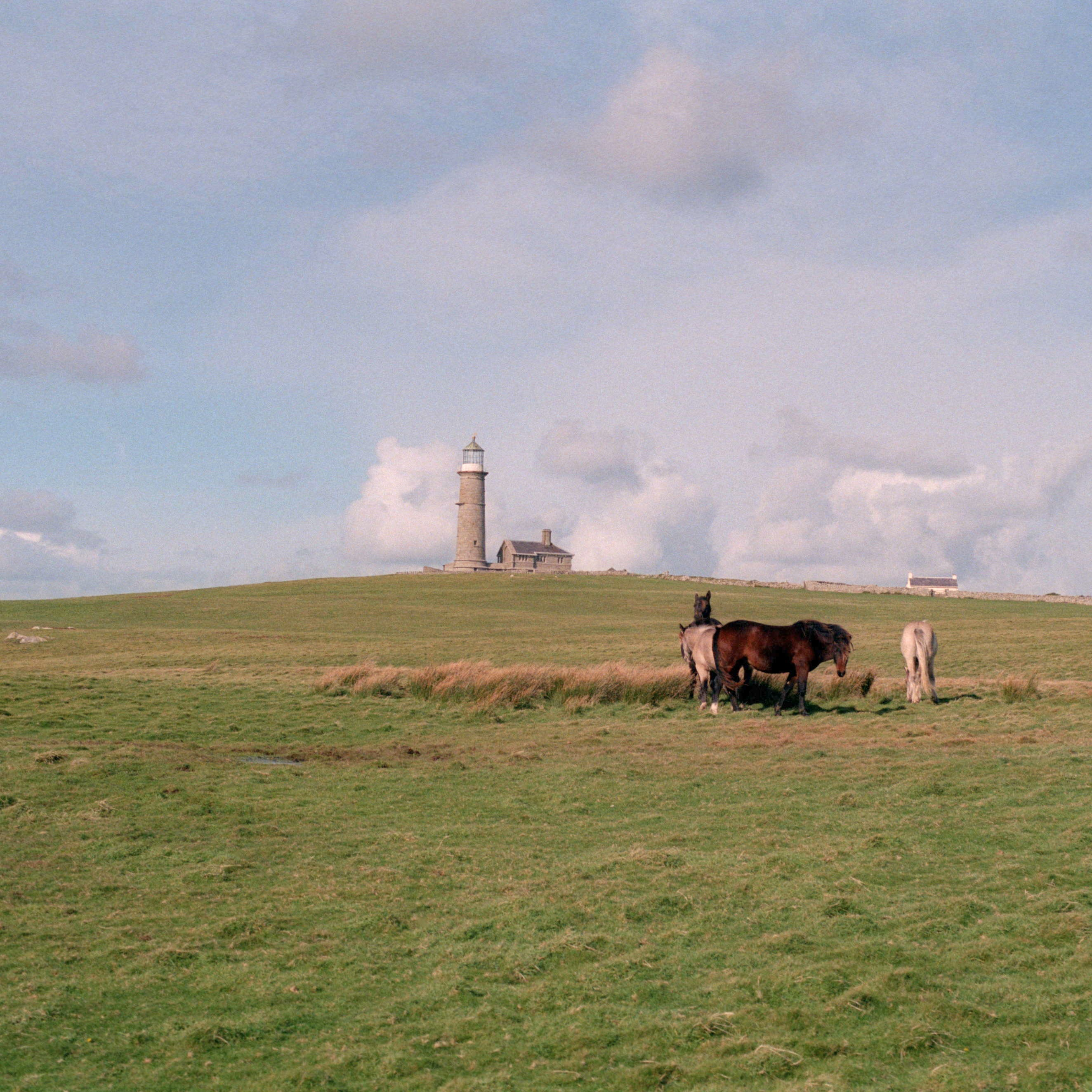 Lighthouse on Lundy